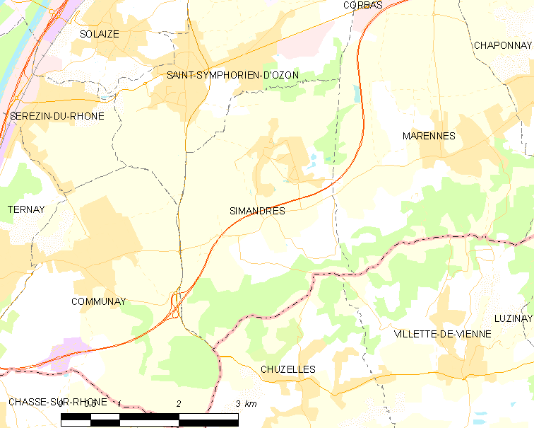 Map of French municipality